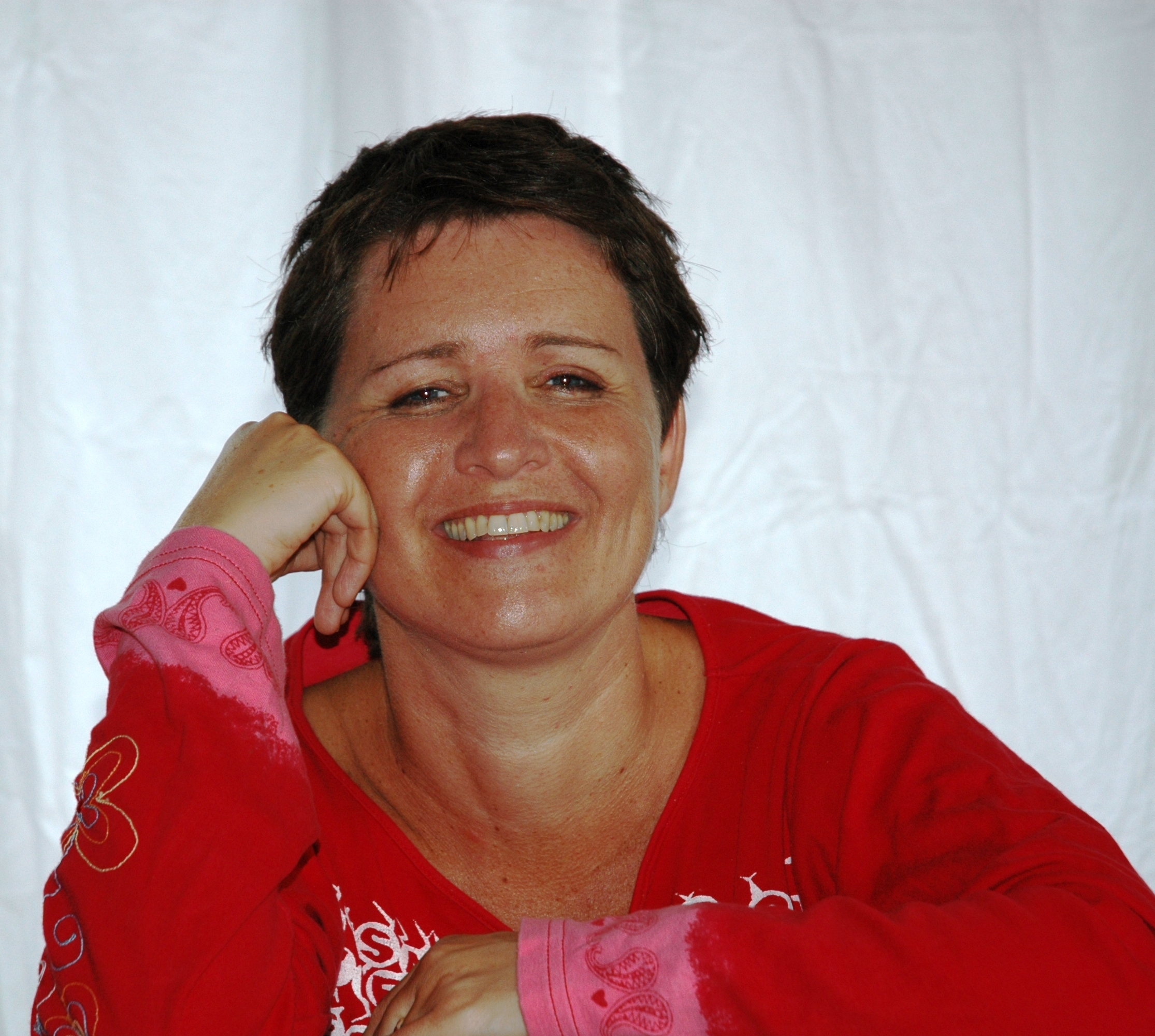 Picture of Norwegian writer Merete Morken Andersen, born 1965.